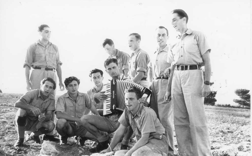 The Palmach, Israel Defense Forces